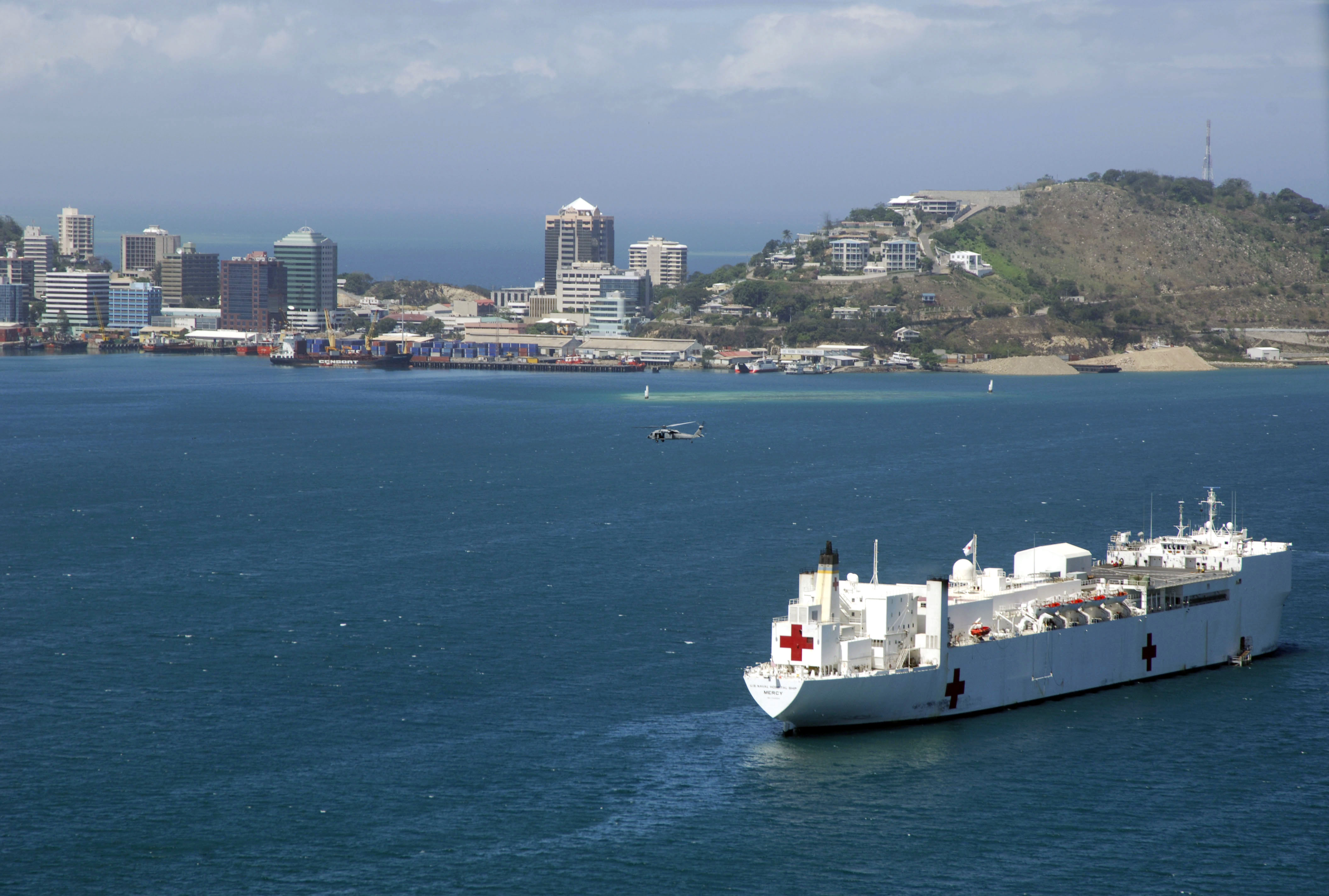 PORT MORESBY, Papua New Guinea (Aug. 11, 2008) The Military Sealift Command hospital ship USNS Mercy (T-AH 19) anchored off the coast of Papua New Guinea in support of Pacific Partnership 2008. Pacific Partnership is a four-month humanitarian mission to Southeast Asia intended to build collaborative partnerships by providing engineering, civic, medical and dental assistance to the region. U.S. Navy photo by Mass Communication Specialist 3rd Class Michael C. Barton (Released)